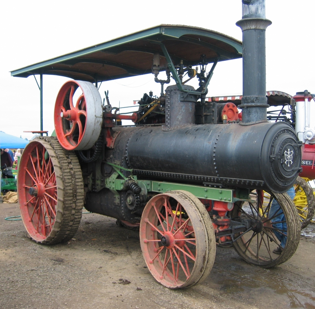 Aultman & Taylor steam tractor, Woodburn tulip festival.